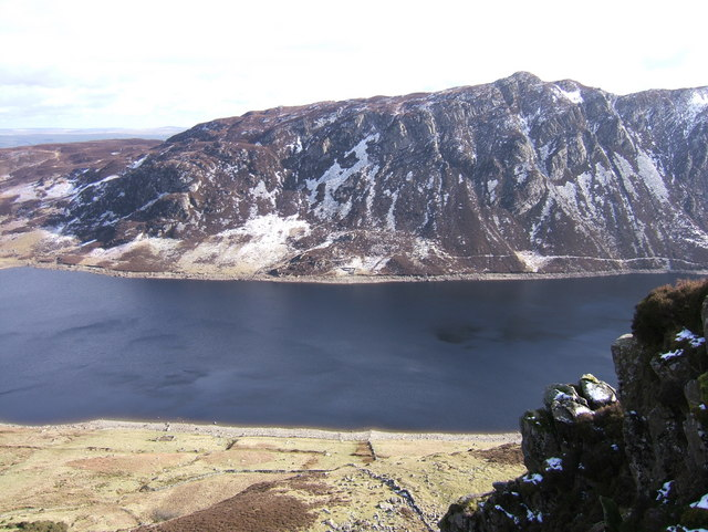 Creigiau Gleision, from Clogwyn Du, 5 km from Capel Curig, Conwy, Wales. Looking across Llyn Cowlyd, to Creigiau Gleision from Clogwyn Du